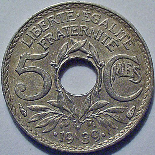 5-centime French coin 1939